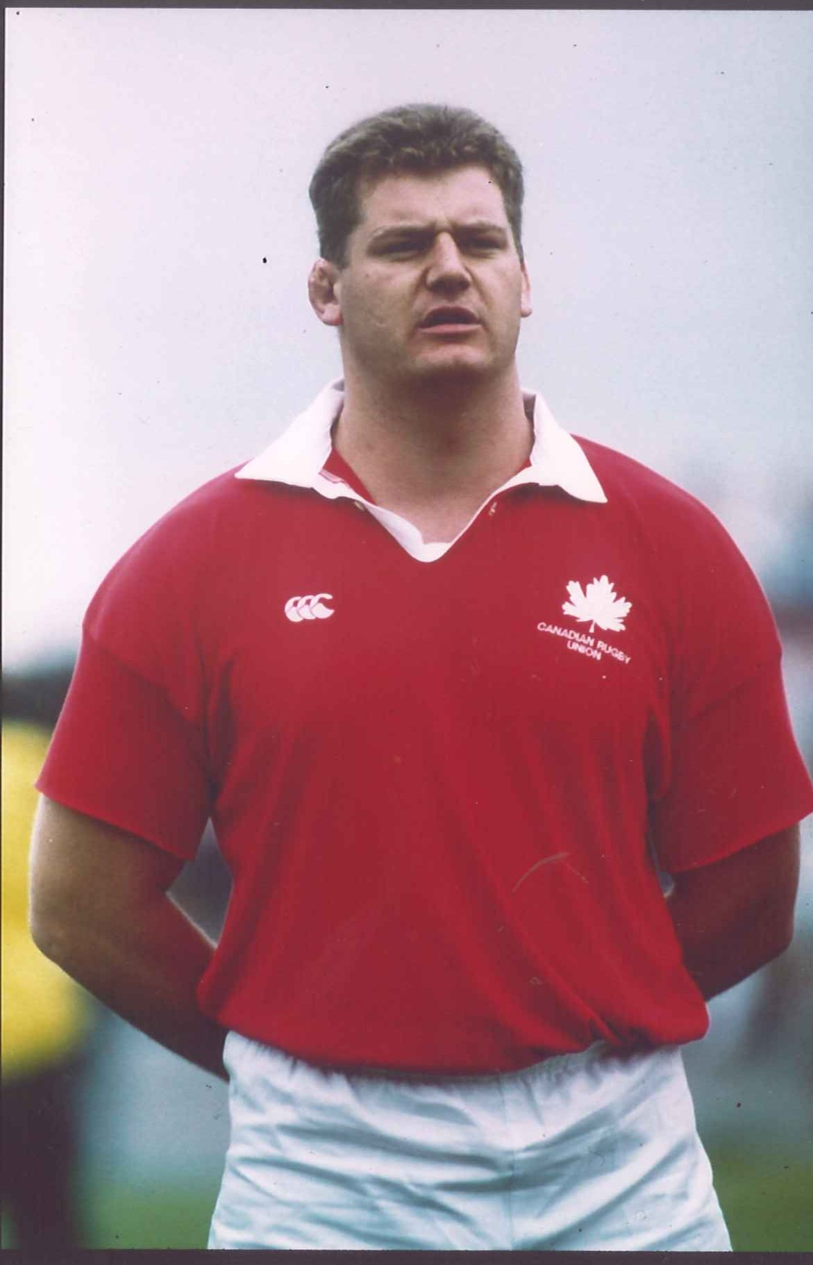 Norm Hadley lines up for Canada. World Cup 1991 (France)